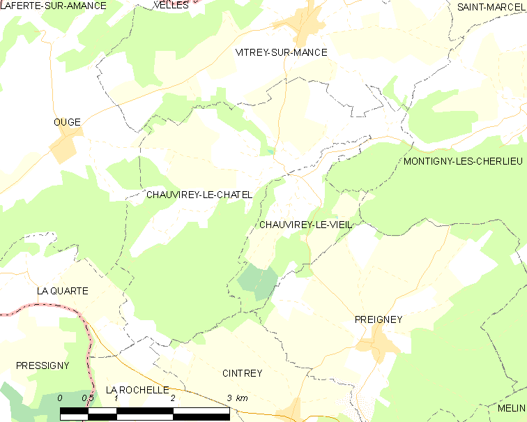 Map of French municipality